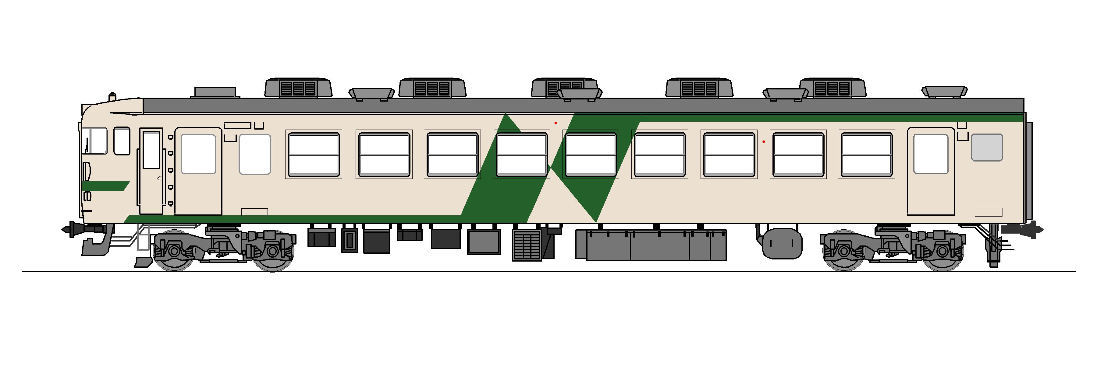 The side view of the EMU series 165 of JNR "New Express" Color.